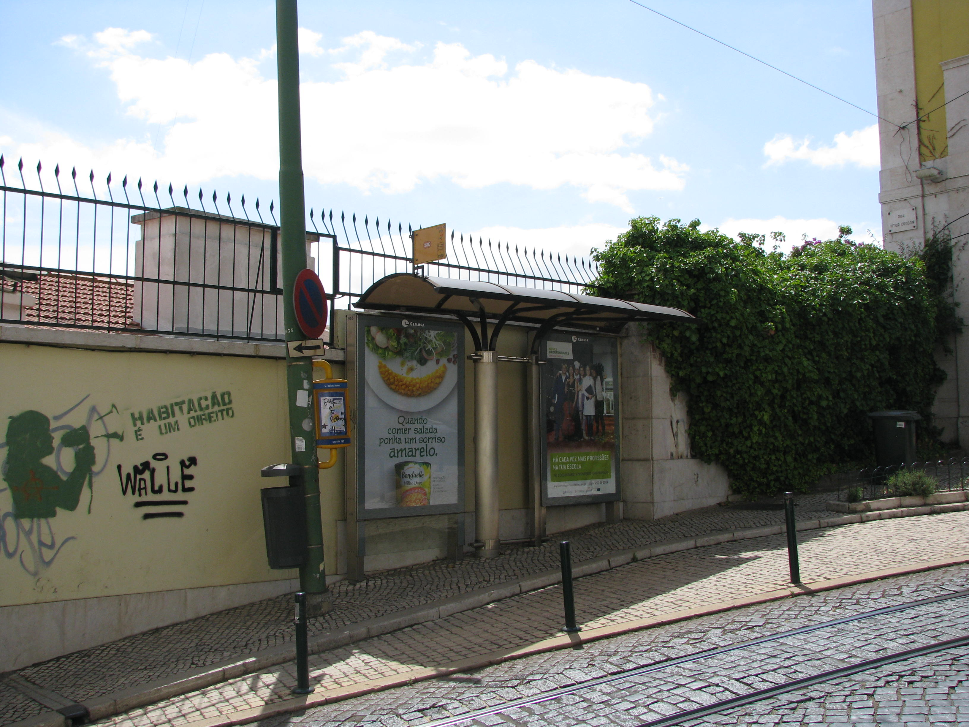 Tram station in Lisbon